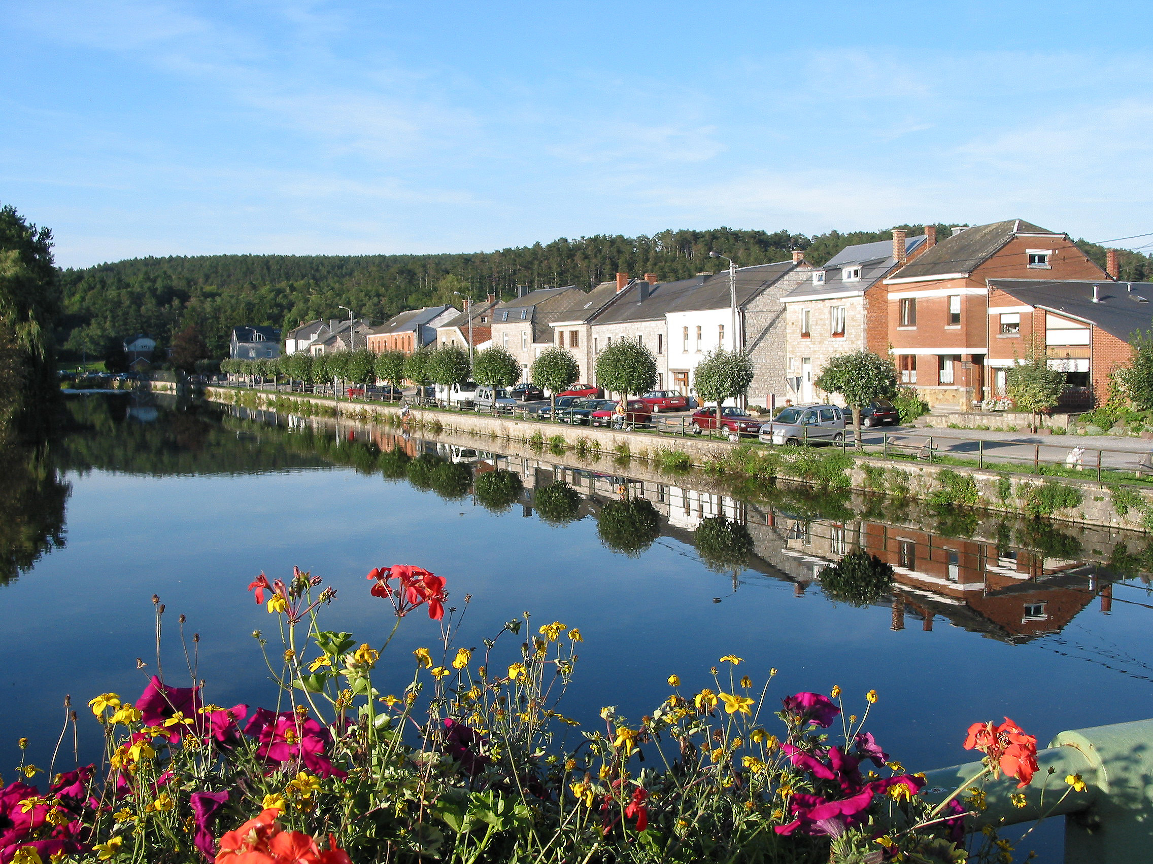 Han-sur-Lesse Belgium, the Lesse river and the rue du Plan d'Eau.